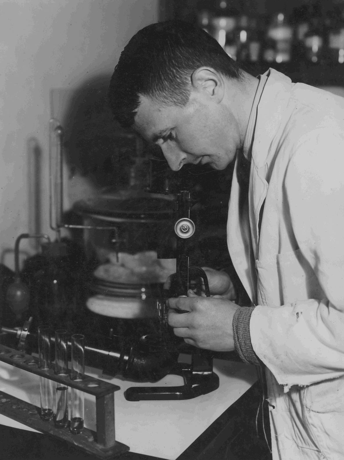 Sydbey Walter Josland 1934